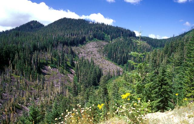 West Crater is a little-known Quaternary volcanic field in the southern Cascades of Washington between Mount St. Helens and Mount Hood. West Crater itself, seen here from the NE, is an andesitic dome with two small lava flows, one of which forms the bare area at the right center. The 290-m-high dome was formed about 8060 years ago on the floor of a cirque carved into older Tertiary volcanic rocks. The West Crater volcanic field consists of a series of small shield volcanoes and cinder cones along a NW-SE zone.